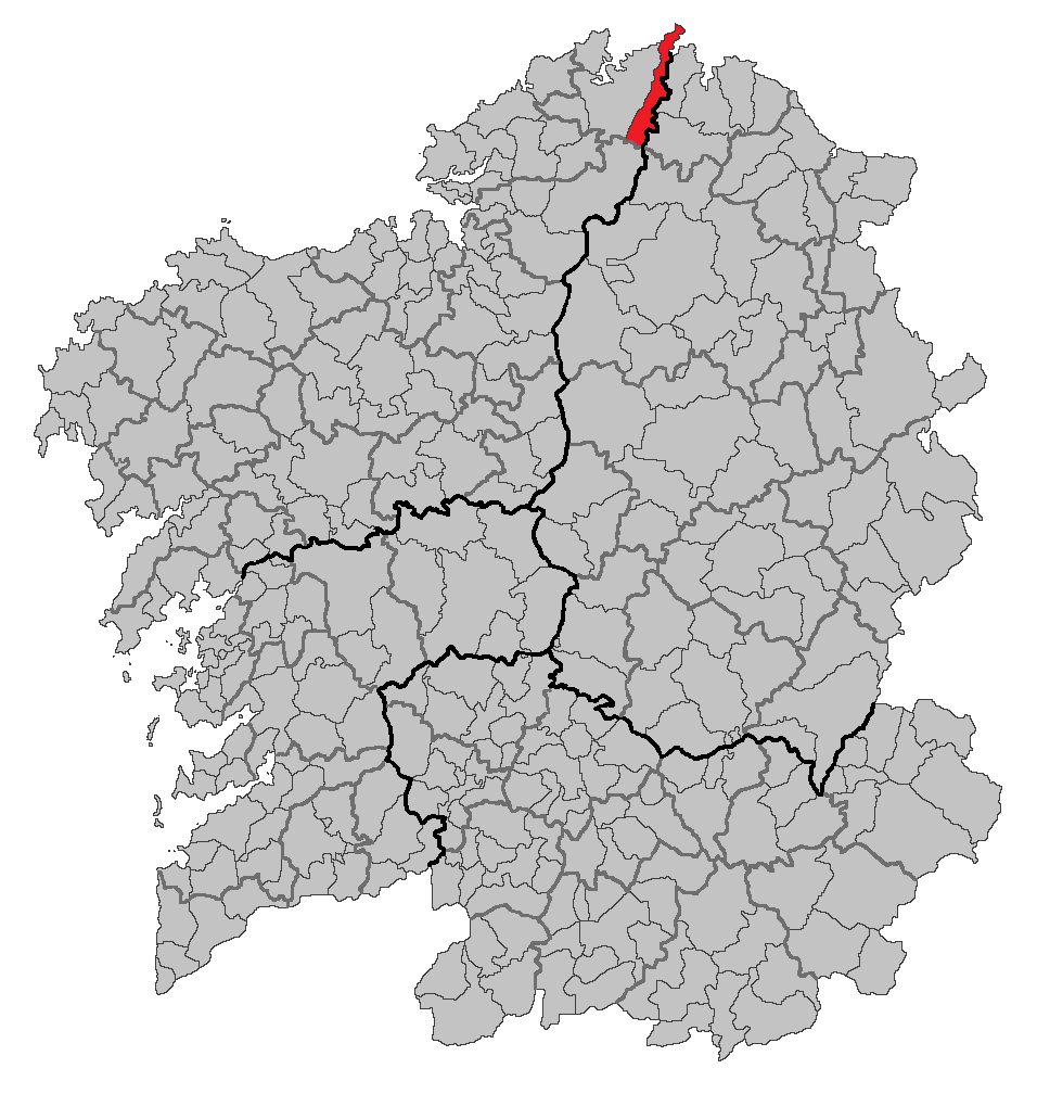 Location map of Mañón, A Coruña, Galicia